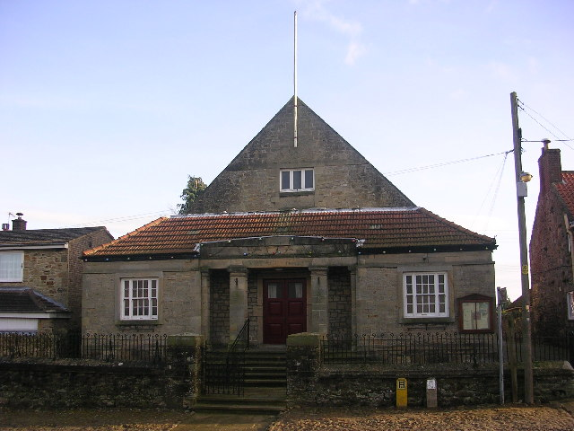 Gilling West Village Hall, near Richmond, North Yorkshire.